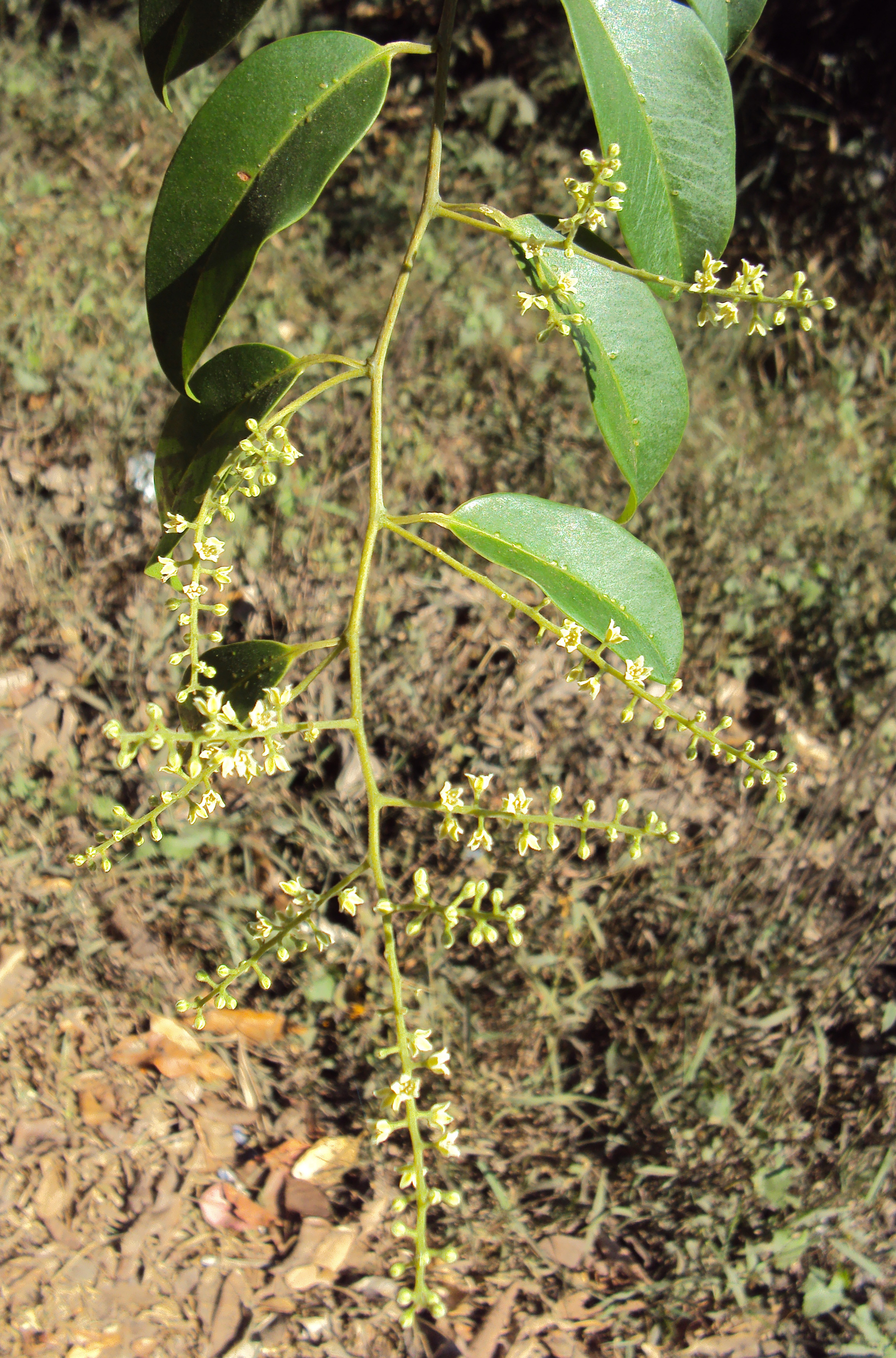 Embelia ribes